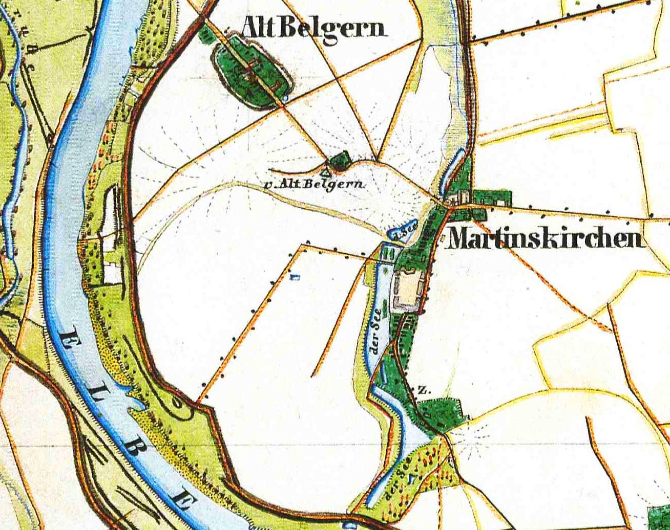 1Martinskirchen, Lkr. Elbe-Elster, Brandenburg, Germany, detail from the Urmesstischblatt Sheet 4545 Mühlberg, drawn in 1847